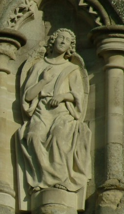 Statue of an angel in niche 19 on the Great West Front of Salisbury Cathedral.